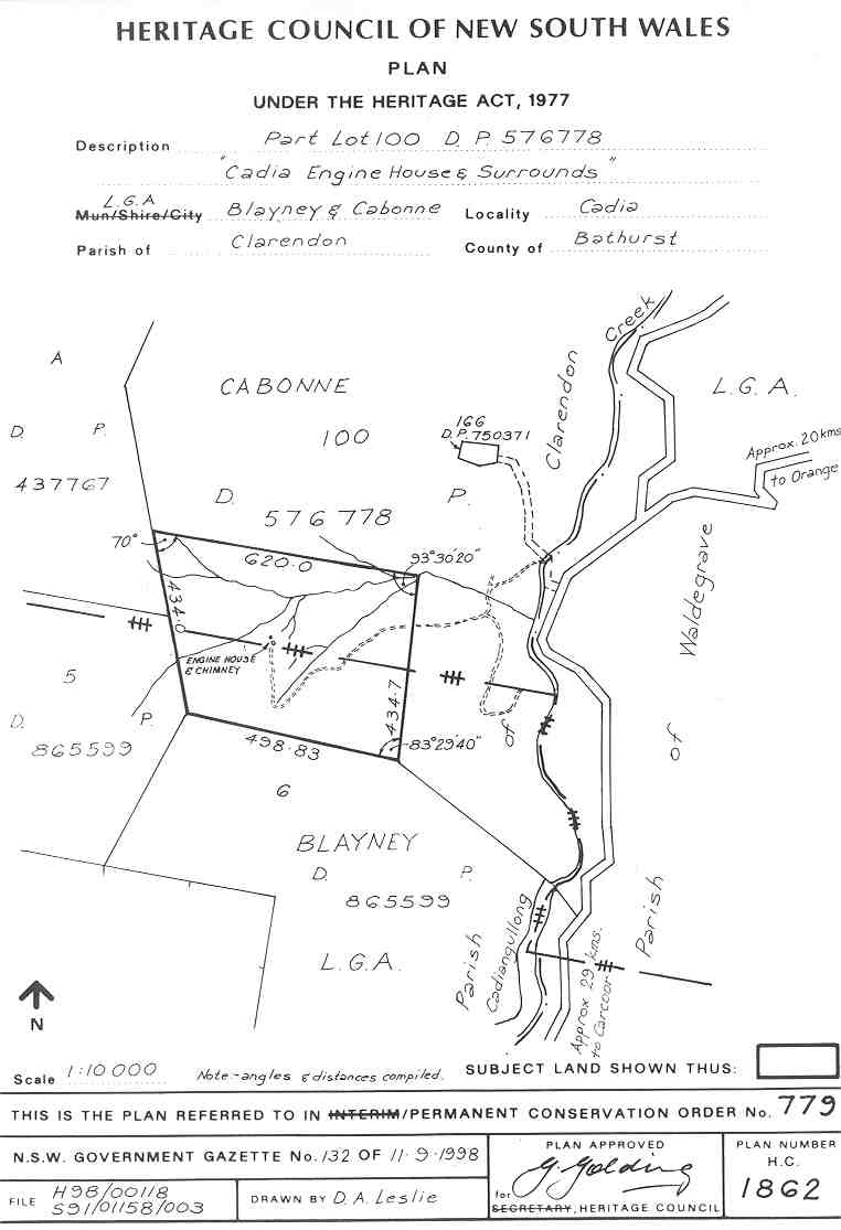 Cadia Engine House: PCO Plan Number 779